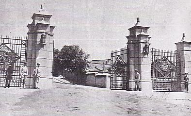 Imperial Household Office of Manchukuo